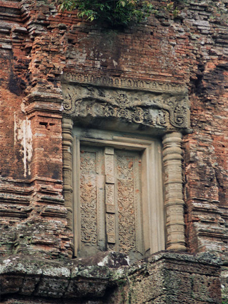 Baksei Chamkrong. Angkor Cambodia